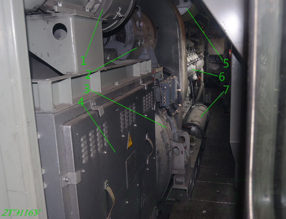 Left corridore of power compartment 2TE116U russian diesel loco. 1 — rectifier ventilator, 2 — starter-generator, 3 — main alternator, 4 — rectifier, 5 — sound damper, 6 — diesel, 7 — oil-to-water heat exchanger.